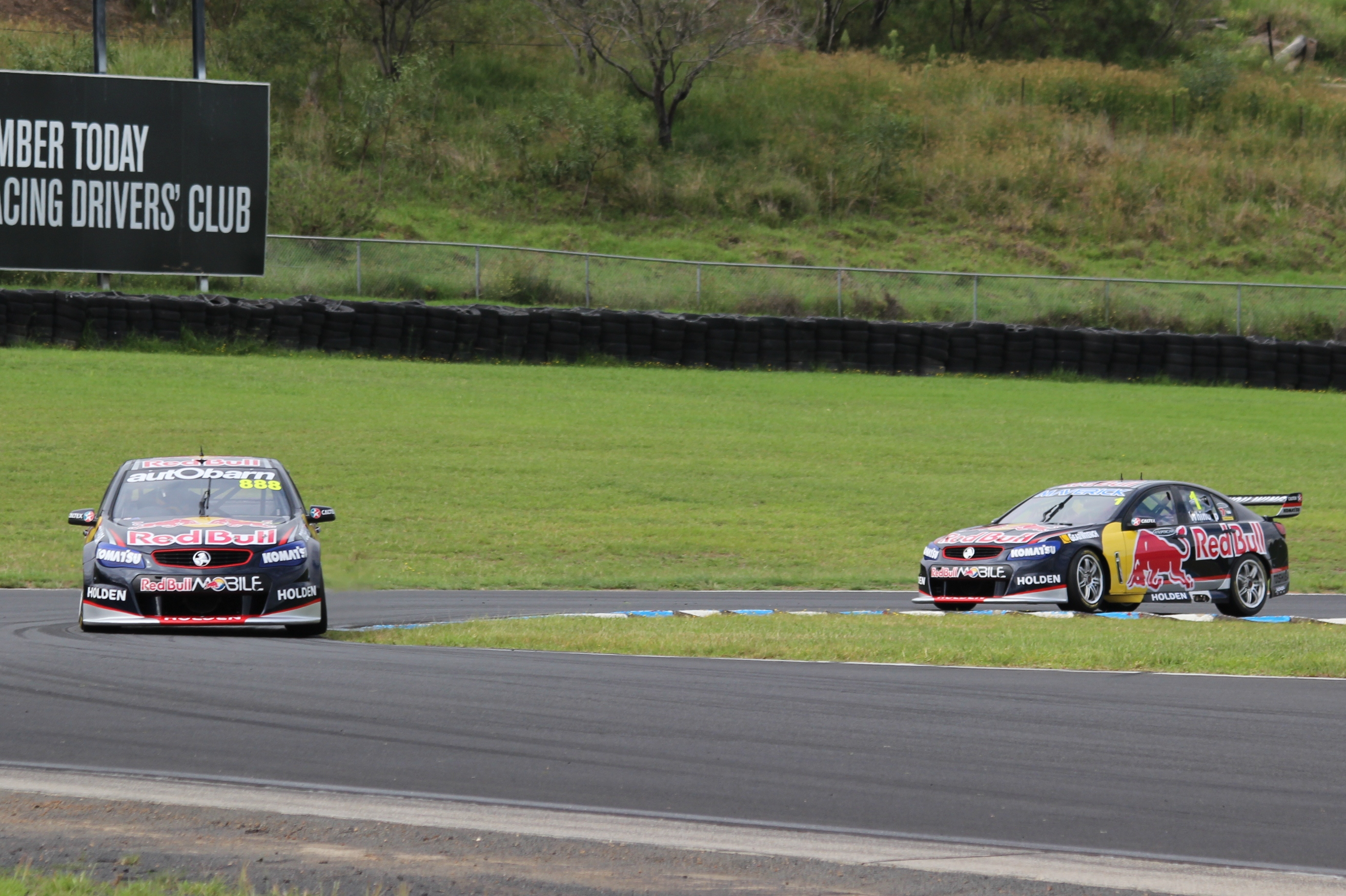 The Triple Eight Race Engineering Holden VF Commodores of Craig Lowndes and Jamie Whincup at Sydney Motorsport Park during the 2013 V8 Supercar Test Day.